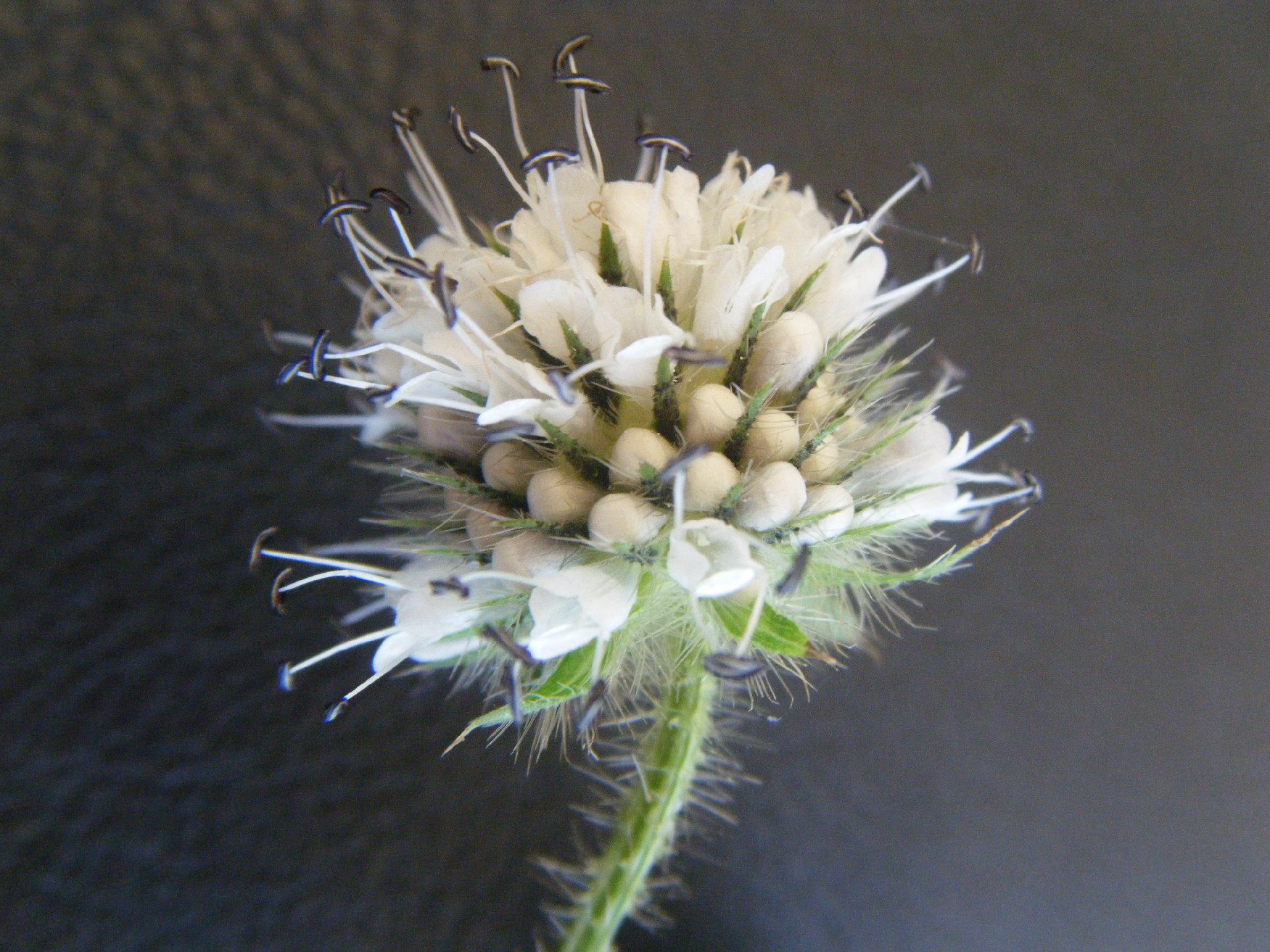 Dipsacus pilosus : flower